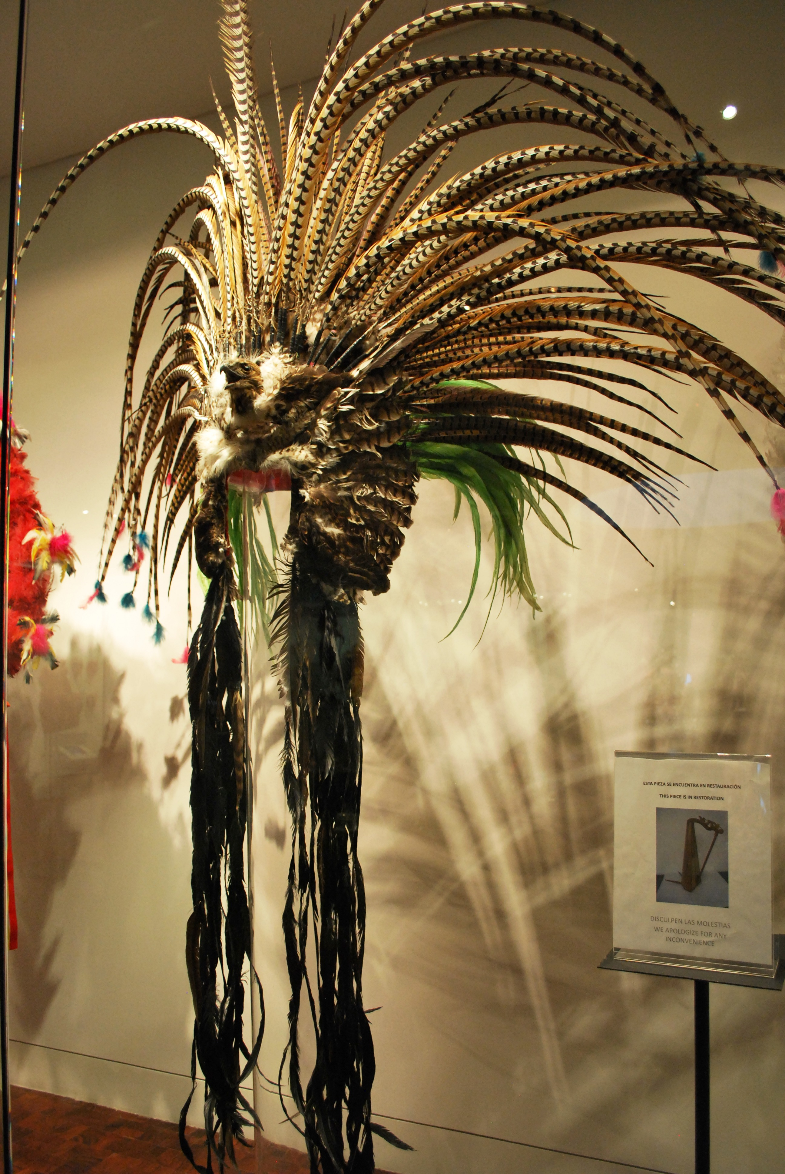 Feathered headdress for the concheros dance on display at the Museum of Artes Populares in Mexico City